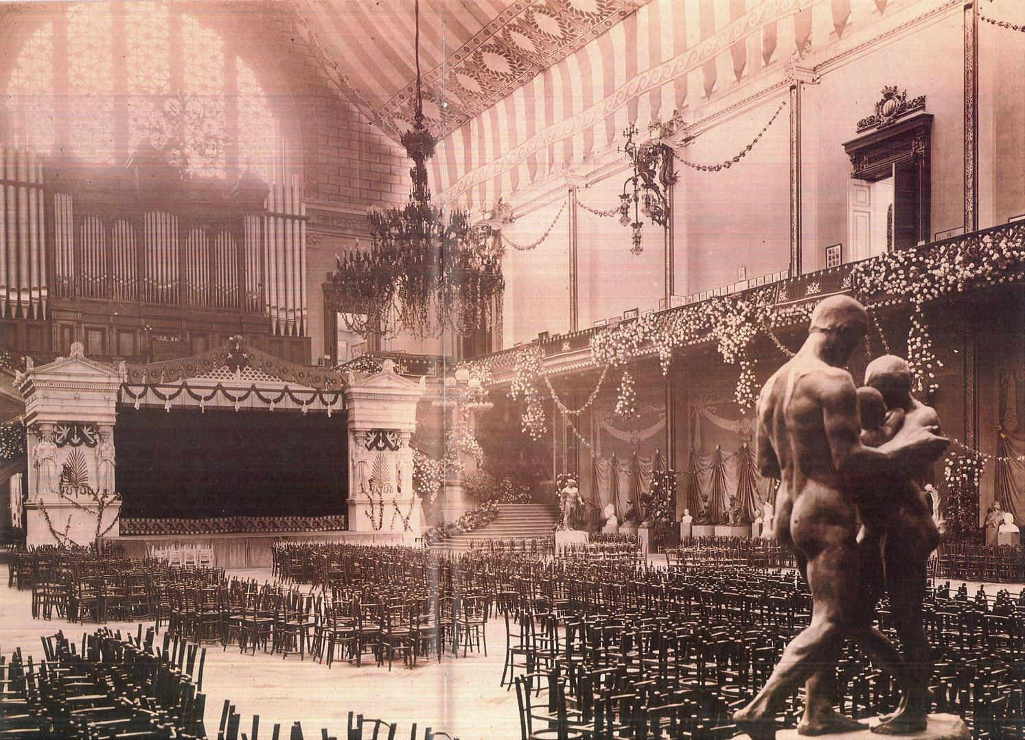 Old Palau de Belles Arts of Barcelona, demolished 1942